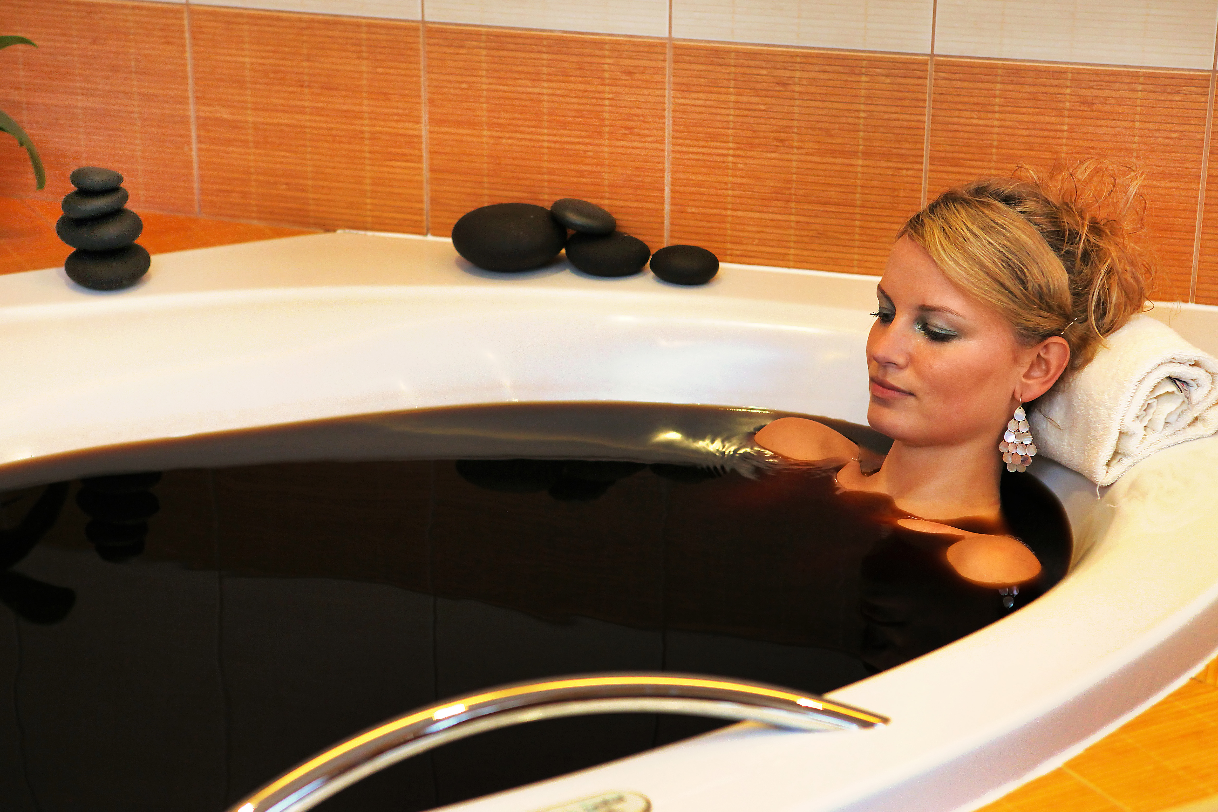 Peat Bath - Wellness Center Zlatá Hvězda Třeboň